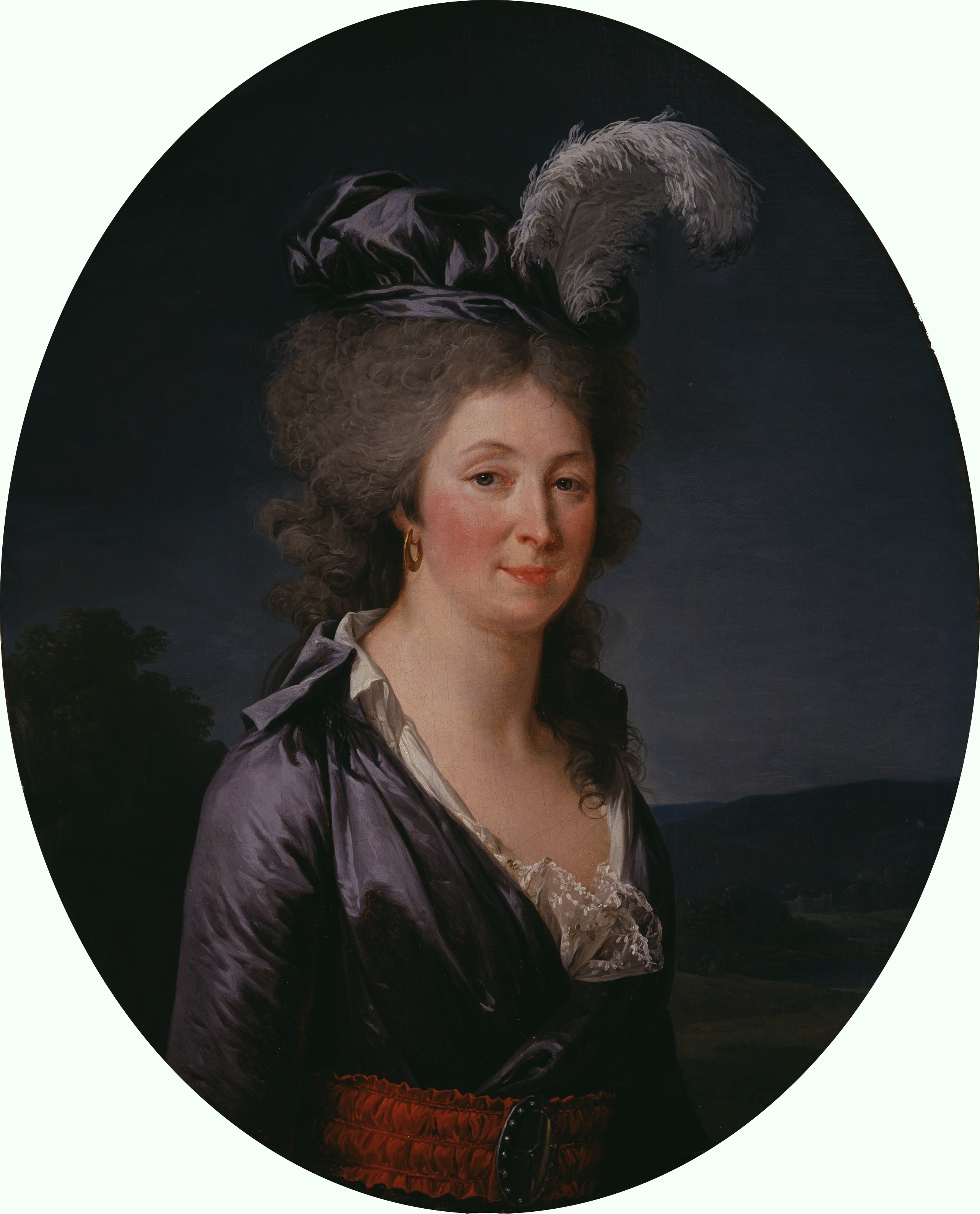 In her earlier portraits of French nobility, Adélaïde Labille-Guiard had proven herself adept at rendering intricate details of elaborate clothing, furniture, and architecture. In Presumed Portrait of the Marquise de Lafayette (1759–1807), however, the artist demonstrates how effective an image she can create using a minimal number of elements. In 1774 Adrienne de Noailles, member of a powerful family of French aristocrats, had married the marquis de Lafayette. This portrait, presumed to depict her, was most likely painted in 1790. By that time the marquise's husband had already become well known in both French and American politics.Appropriately, Labille-Guiard's sitter wears a simple dress of the type favored by women during the early years of the French Revolution. She wears no ornate jewelry. She is not posed in an elaborate architectural setting, and even the landscape behind the marquise is relatively restrained in keeping with the simplicity of her apparel and her pose. Her somewhat tentative smile emphasizes the sitter's physical attractiveness without unduly flattering her.